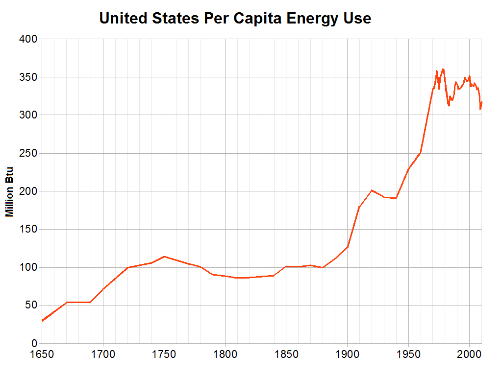 United States per capita energy use 1650-2010 from EIA Annual Energy Review[1] or [2] and [3] or [4] (population from census reports)